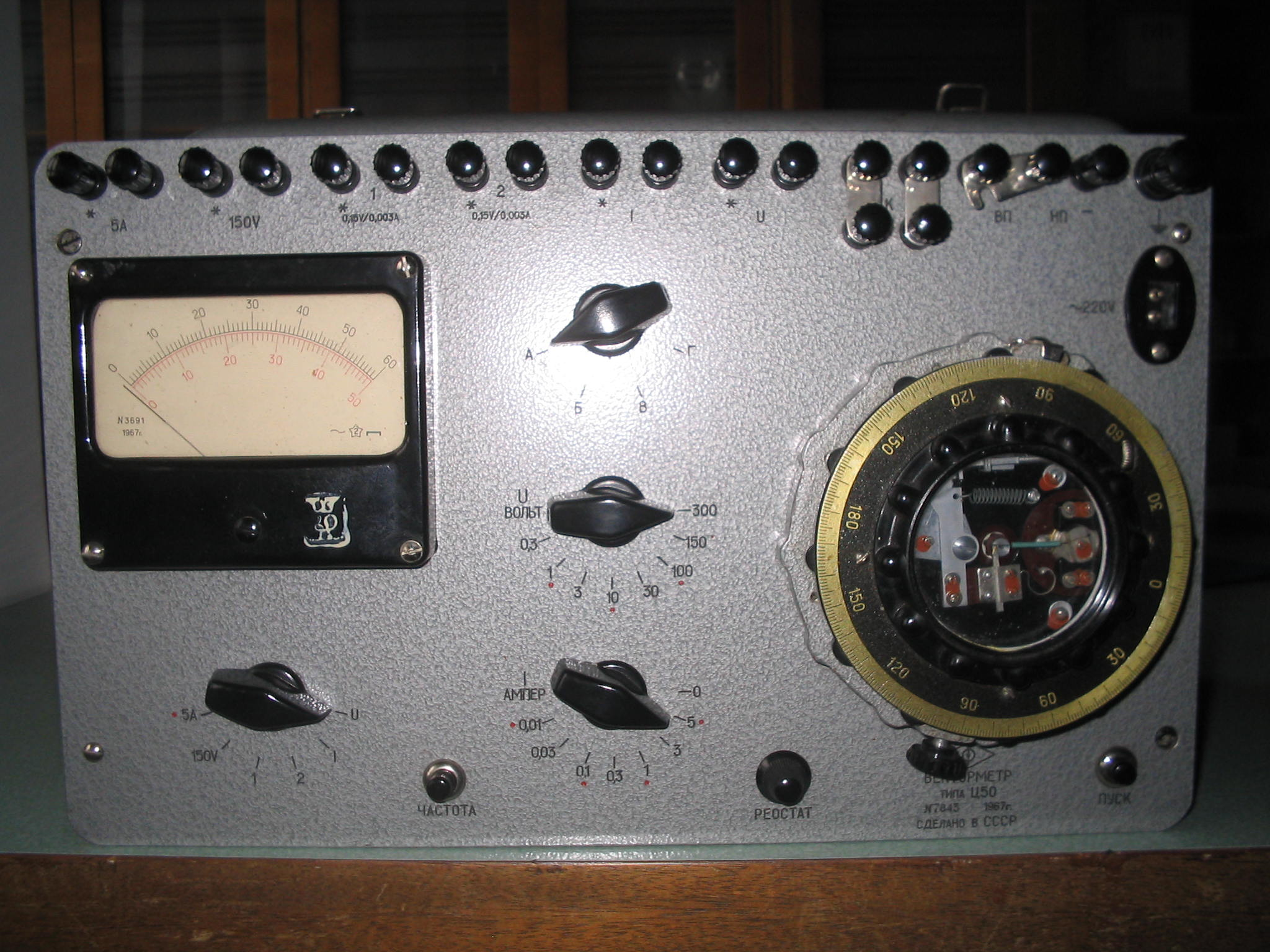 TS50 Vectormeter